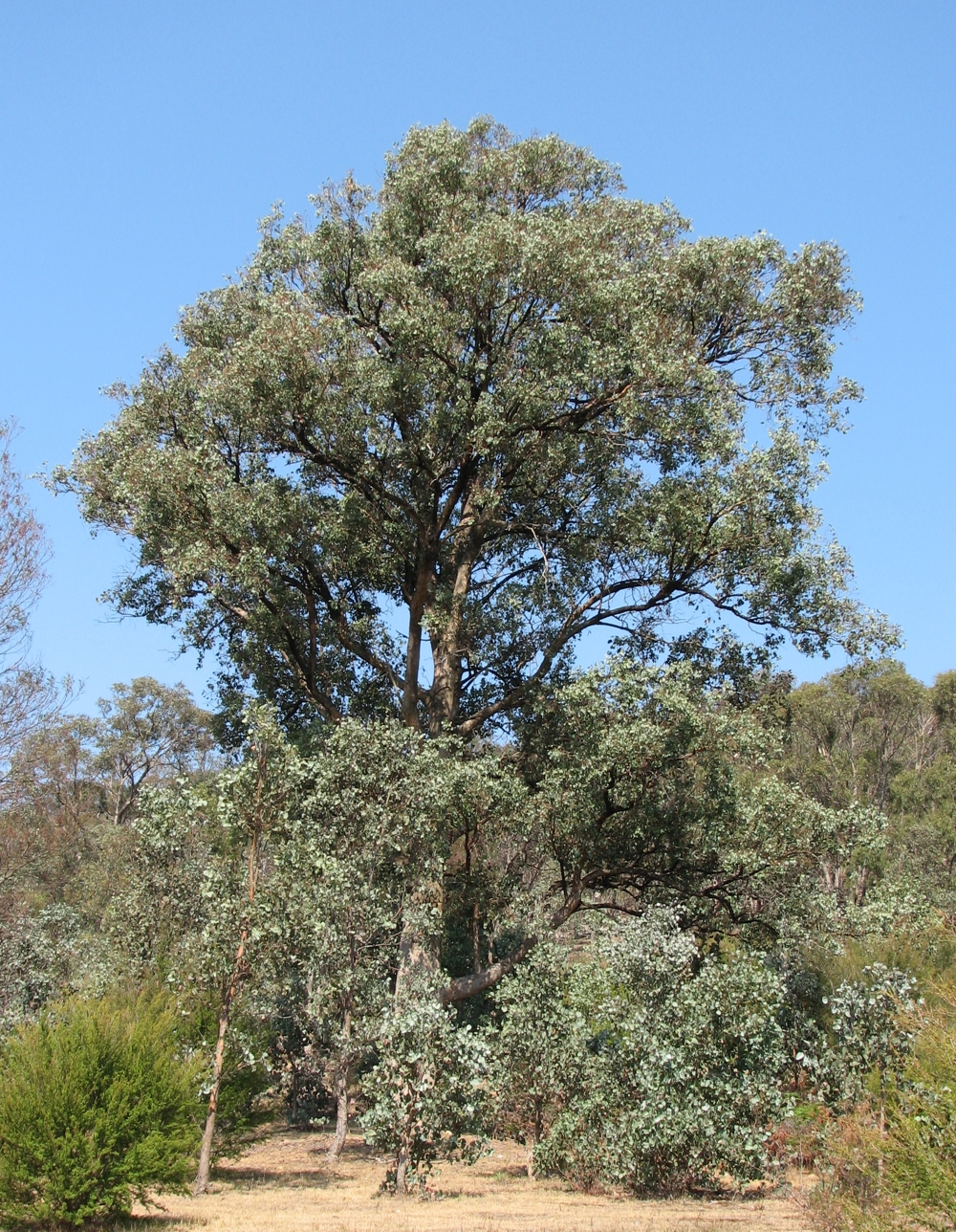 Eucalyptus polyanthemos subsp. vestita, Christmas Hills, Victoria, Australia